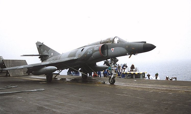 A Super-Etendard ready for launching off the flying deck from the Clémenceau french aircraft carrier (16th of July 1997)